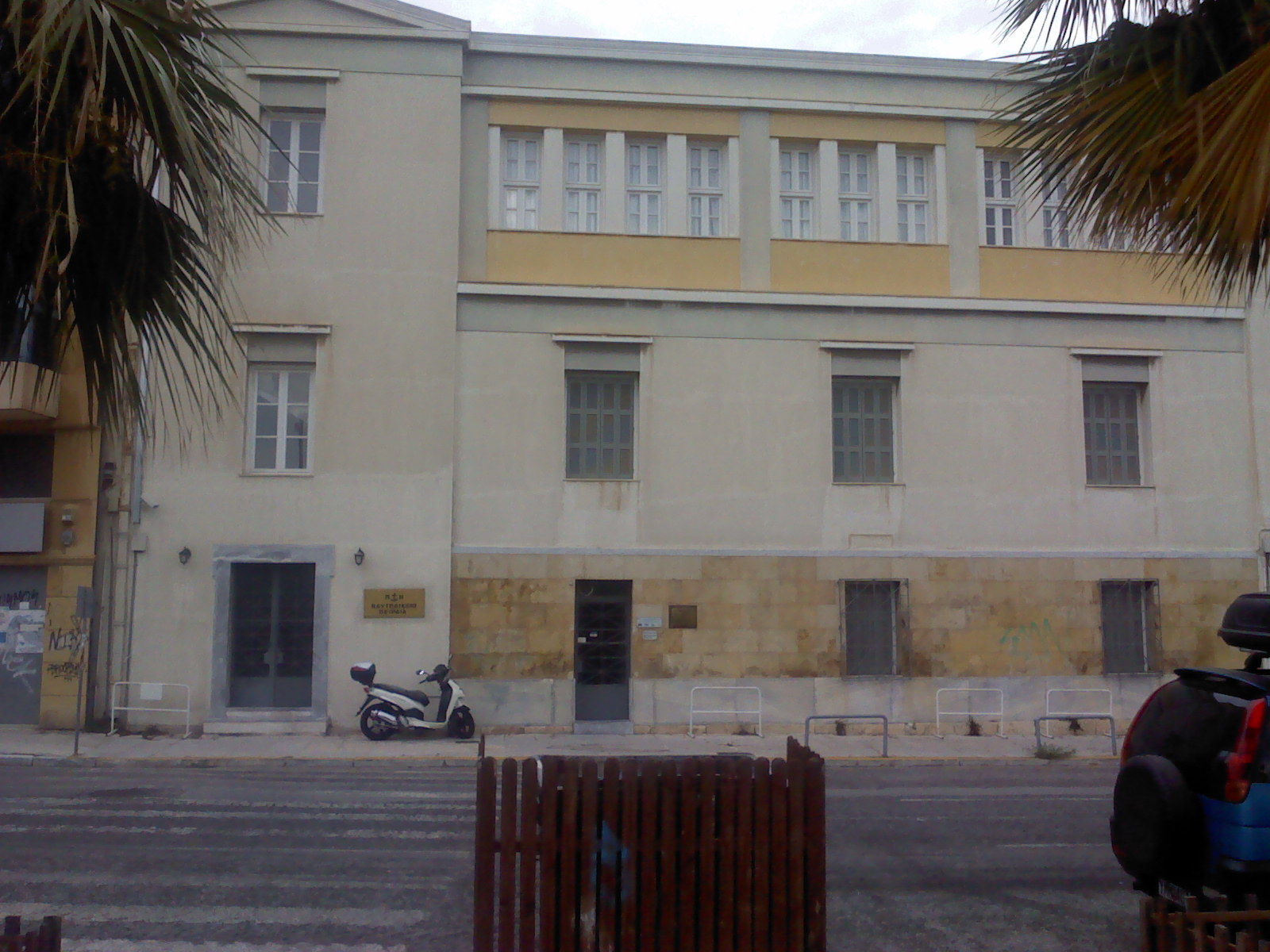 Naval Judge Pireas